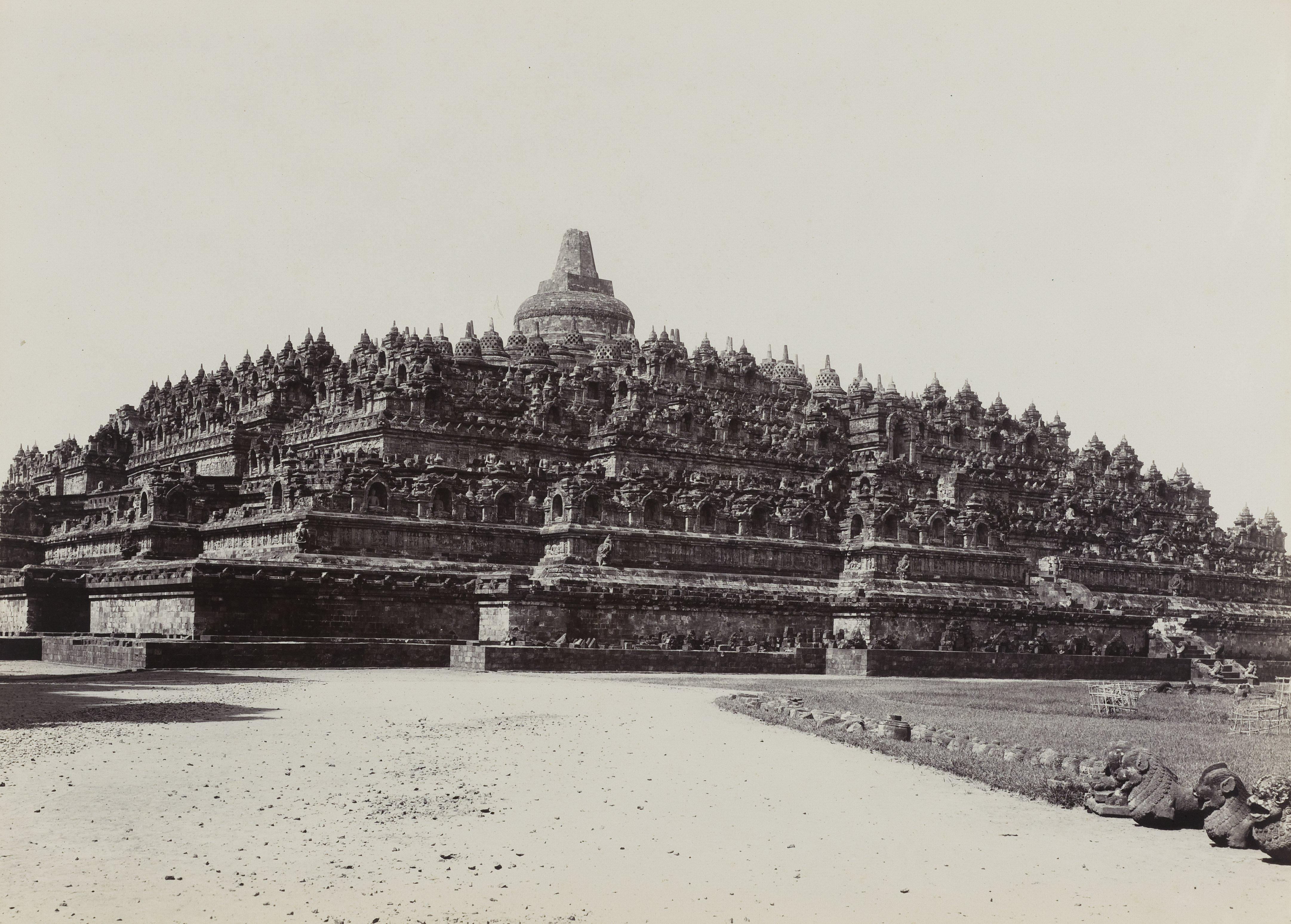 Borobudur